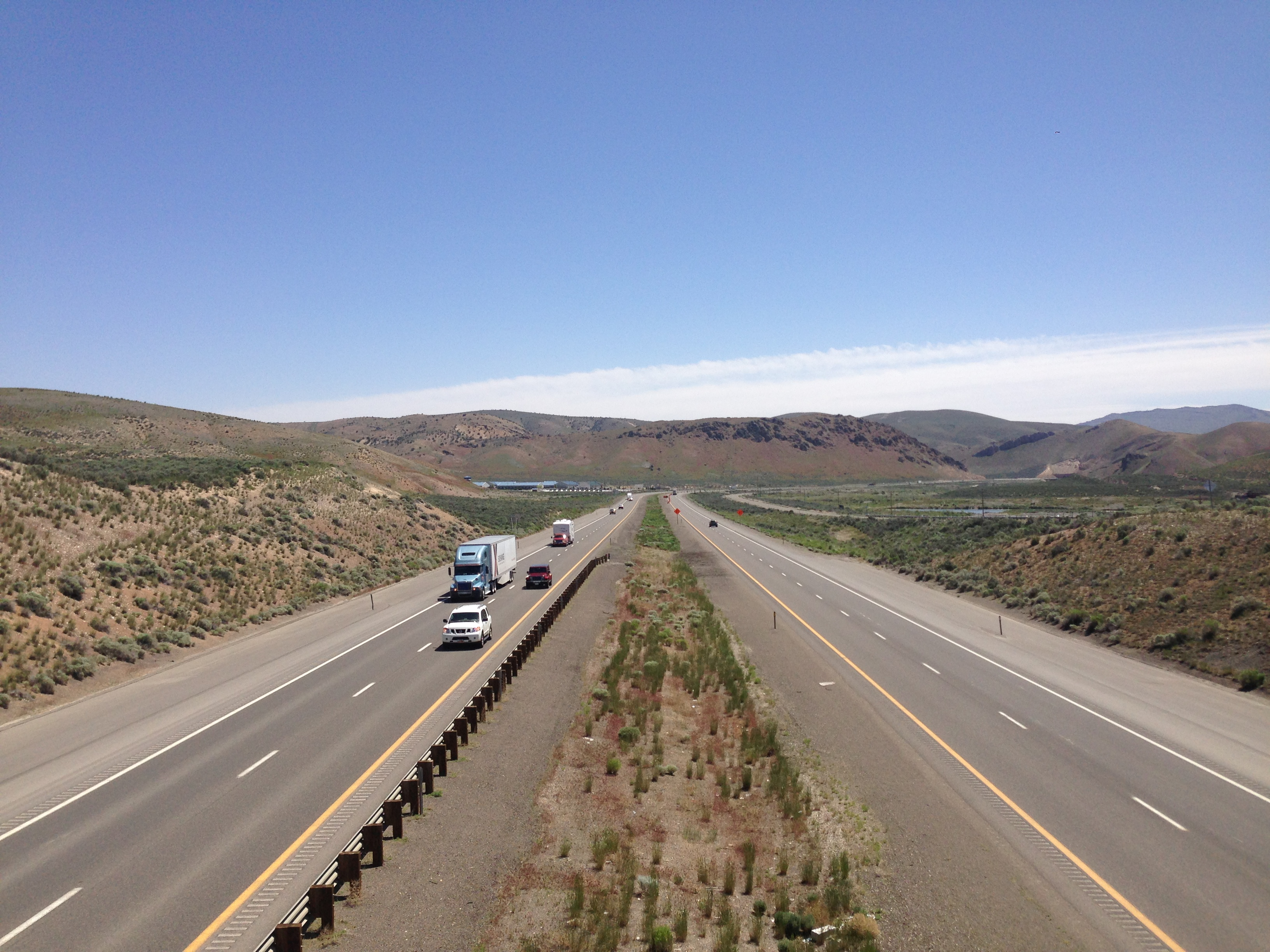 View east along Interstate 80 from an overpass east of Carlin, Nevada